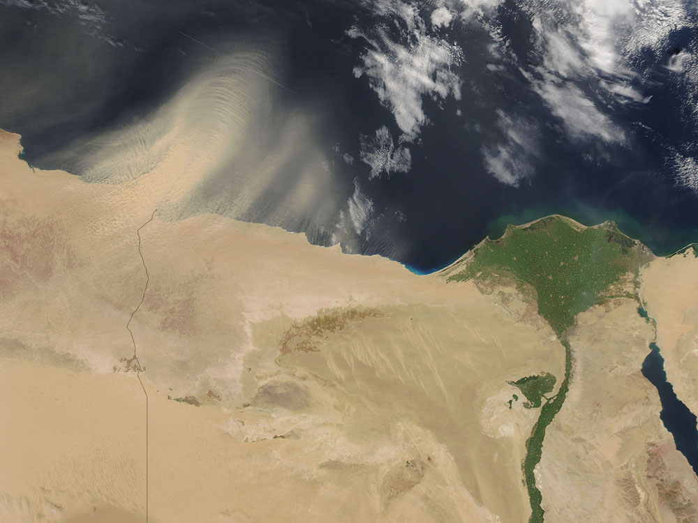 Satellite picture of the Nile Delta, Egypt.